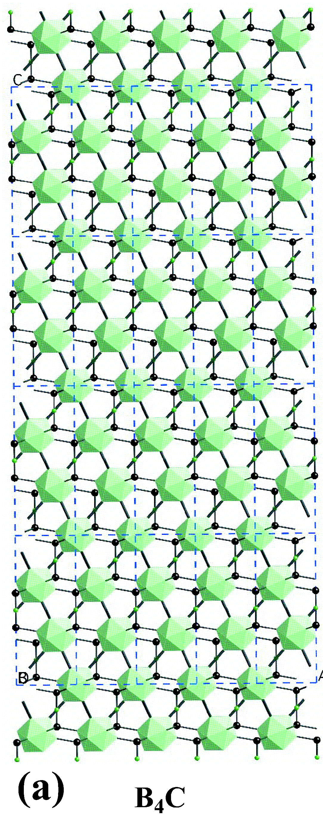 Stacking sequences of homologous icosahedron-based rare-earth borides and their HRTEM lattice images; B4C